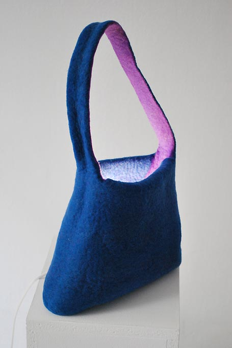 The artwork 'Light purse', amde by 'Two People One Work'(= Munty R. P. zentara and Karin Sulimma) was shown at the Lightart Biennale Austria 2010.